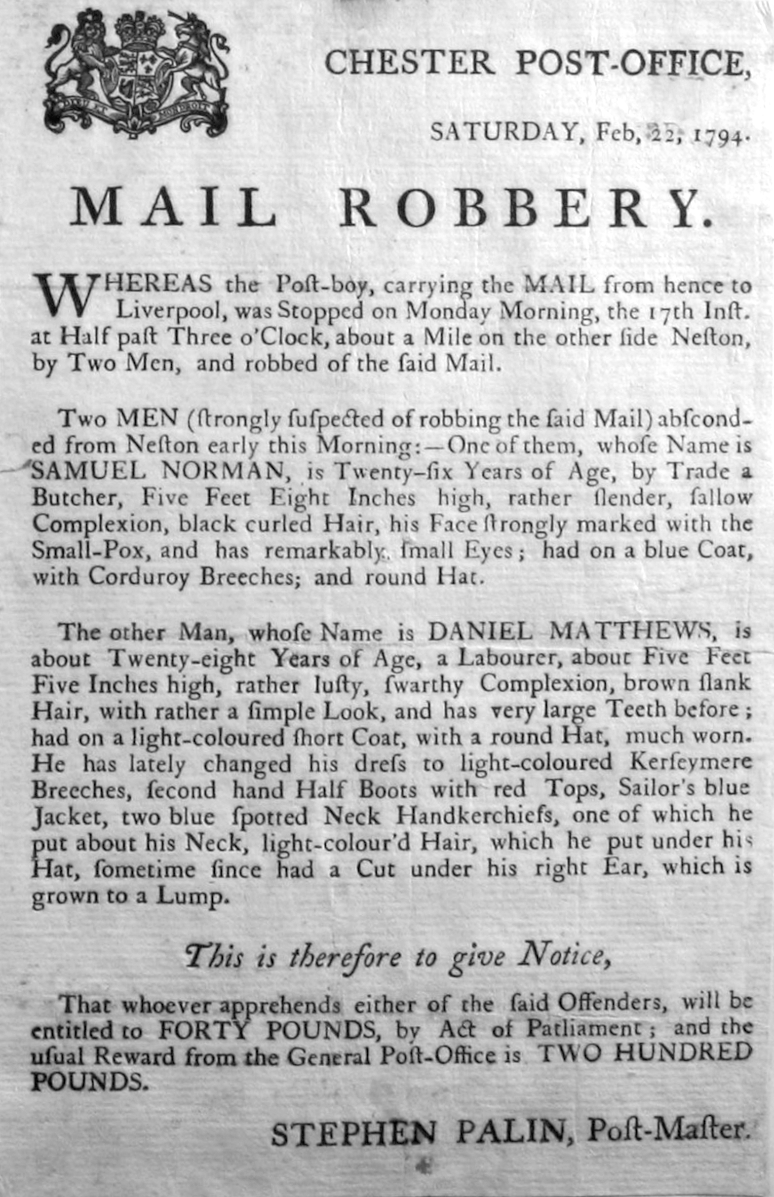 Post Office notice of mail robbery issued on 22 February 1794 by Chester post officetext states "MAIL ROBBERY, post boy that was carrying the mail, who was stopped on the 17th by two men and robbed outside of Neston. The two men suspected of robbing the mail are Samuel Norman, 26 years old, a Butcher, 5 feet 8 inches, face marked with the small pox, small eyes, blue coat, corduroy Breeches, round hat and Daniel Matthews, 28 years old, a labourer, 5 feet 5 inches, Brown hair, large teeth, has sailors blue jacket, two blue spotted neck handkerchiefs, has a cut under right ear that has grown to a lump. Whoever apprehends the offenders will get 40 pounds by Act of Parliament and 200 pounds from Post Office. Stephen Palin, Post-master"